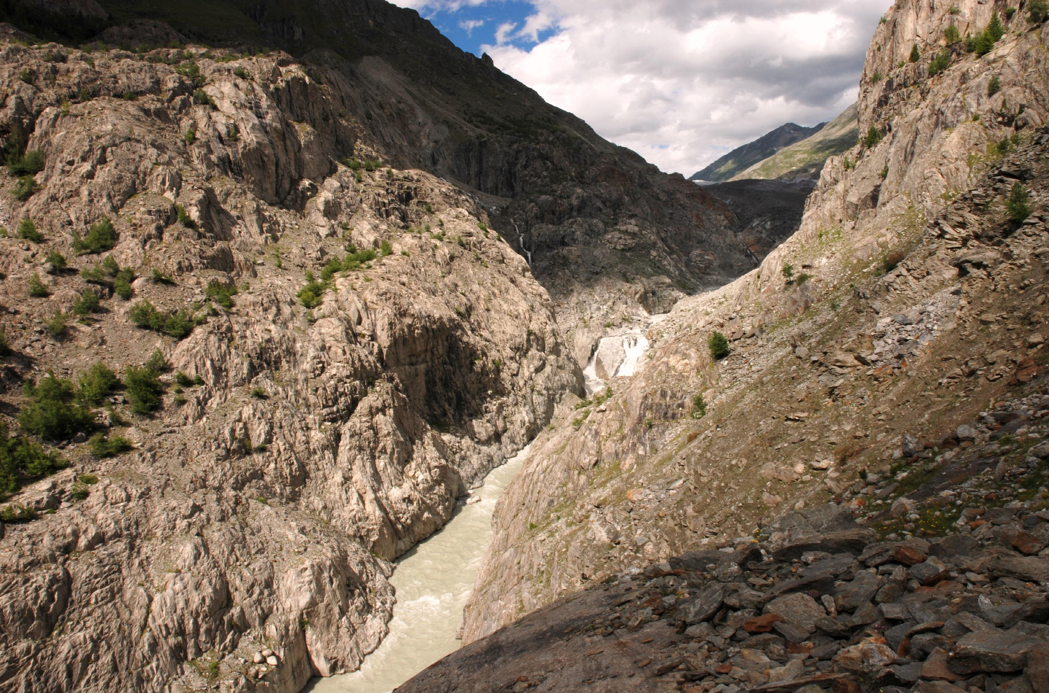 The Massa river near Brig in Valais, Switzerland